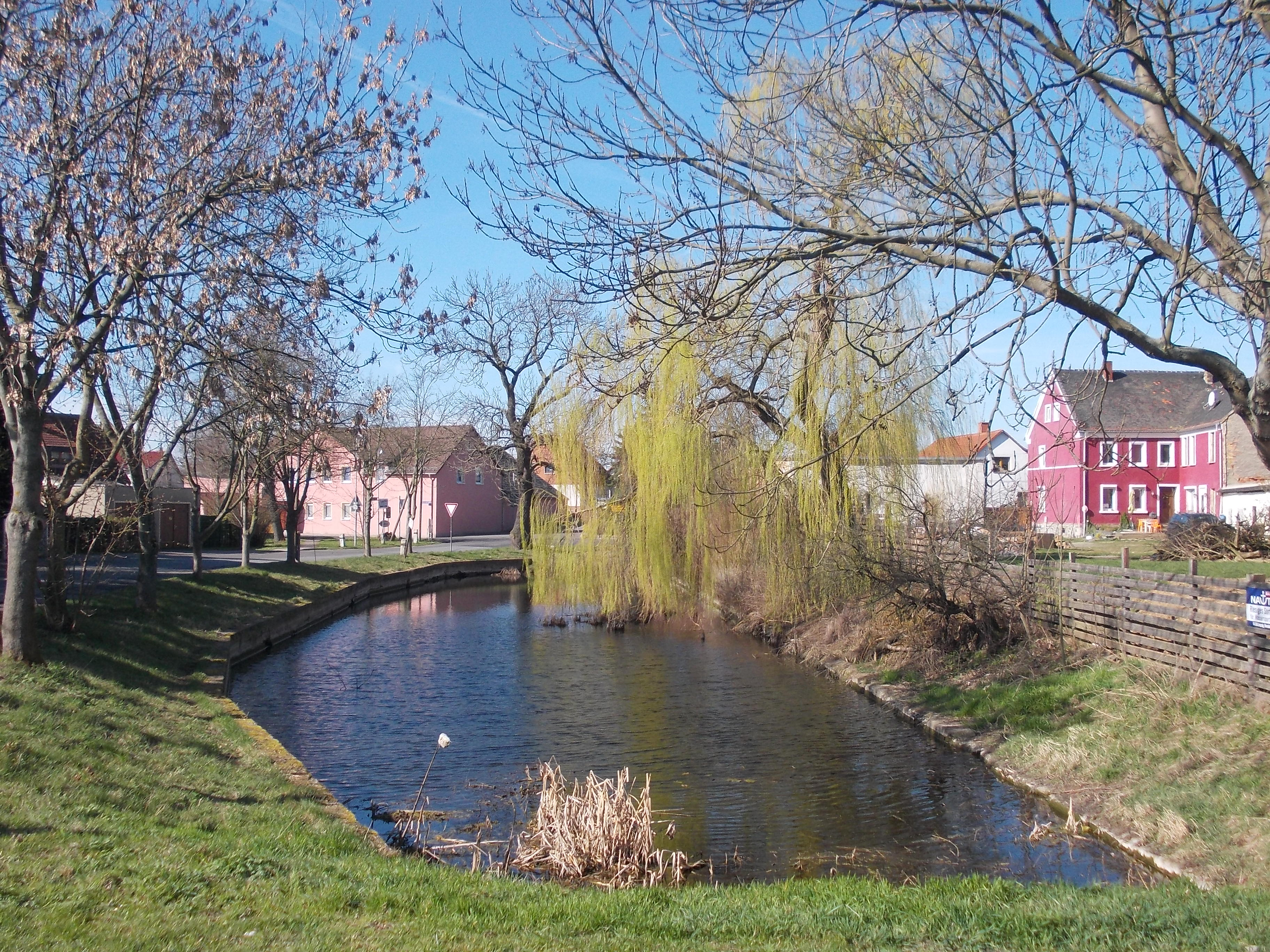 Pond at Töpferweg in Göbschelwitz (Leipzig, Saxony)